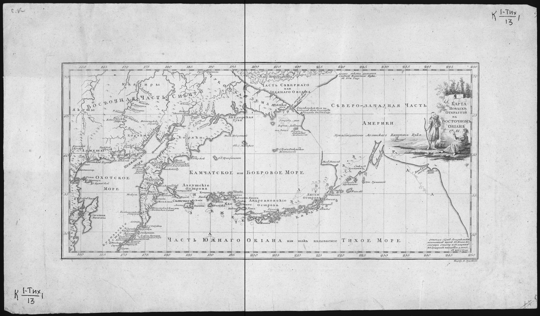 This Russian map of 1781 depicts parts of eastern Siberia and the northwestern part of the North American continent, including places reached by the Russians Mikhail Gvozdev and Ivan Sind, the English explorer Captain James Cook, and others. In 1732, the expedition led by Gvozdev and the navigator Ivan Fedorov crossed the Bering Strait between Asia and America, discovered the Diomede Islands, and approached Alaska in the vicinity of Cape Prince of Wales. The expedition landed on the shore of the North American mainland, marked on the map as the “American Point,” and reported that what they discovered was not an island but a far greater landmass. South of the Bering Strait, the map shows the islands mapped by Lieutenant Sind in 1764-68 and several islands discovered by the English. Northeast of Bering Strait, in the far north of present-day Alaska, is a point reached by Cook in 1778 during his third voyage to the Pacific in his quest for the elusive Northwest Passage. It is marked on the map with the words: “Glorious Captain Cook reached this place in 1778.” The map also points out areas inhabited by various ethnic groups with whom the Russian and European explorers made early contacts: Yakut, Koryak, Yukagir, and others.